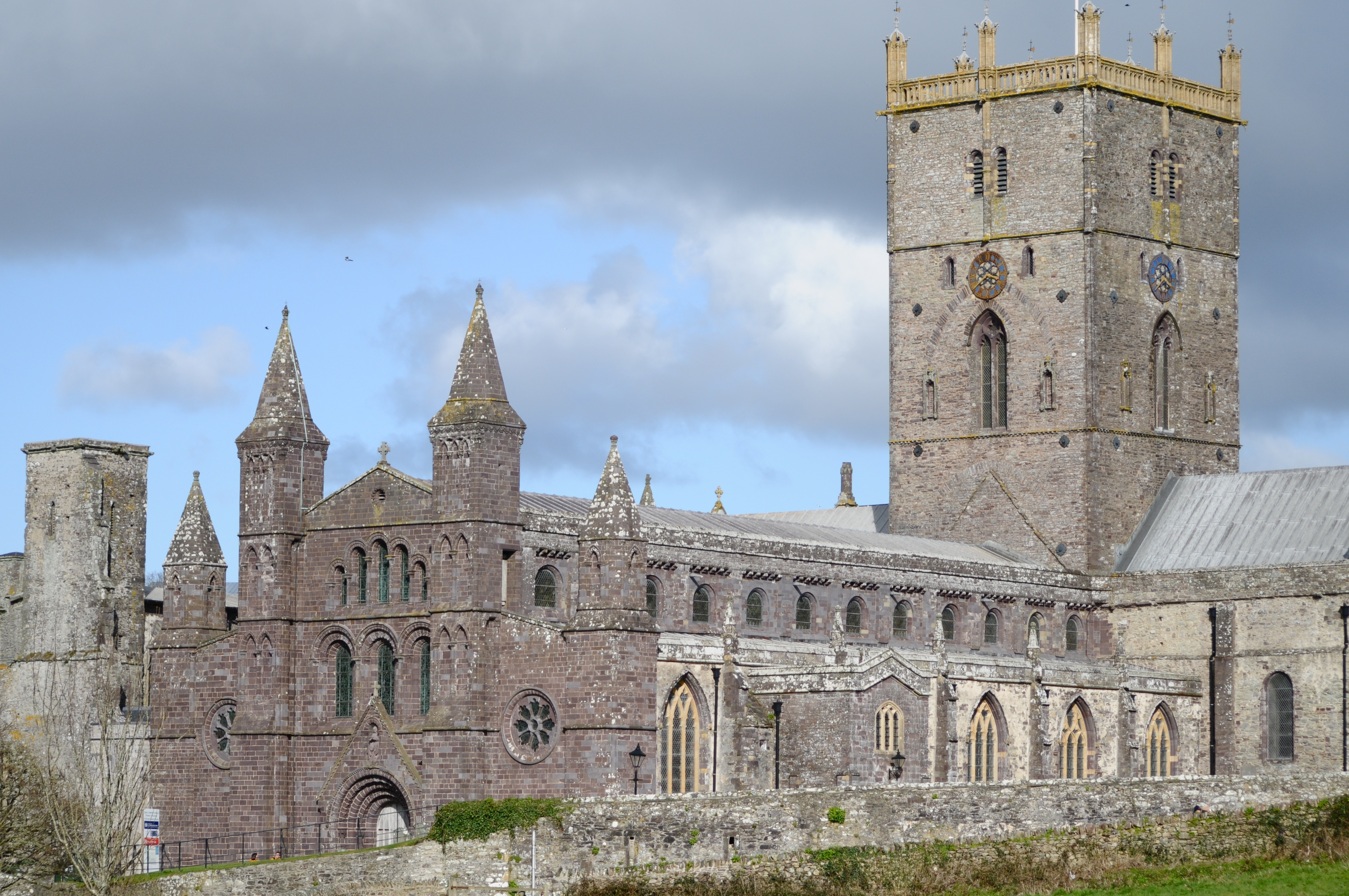 St David's Cathedral in Wales